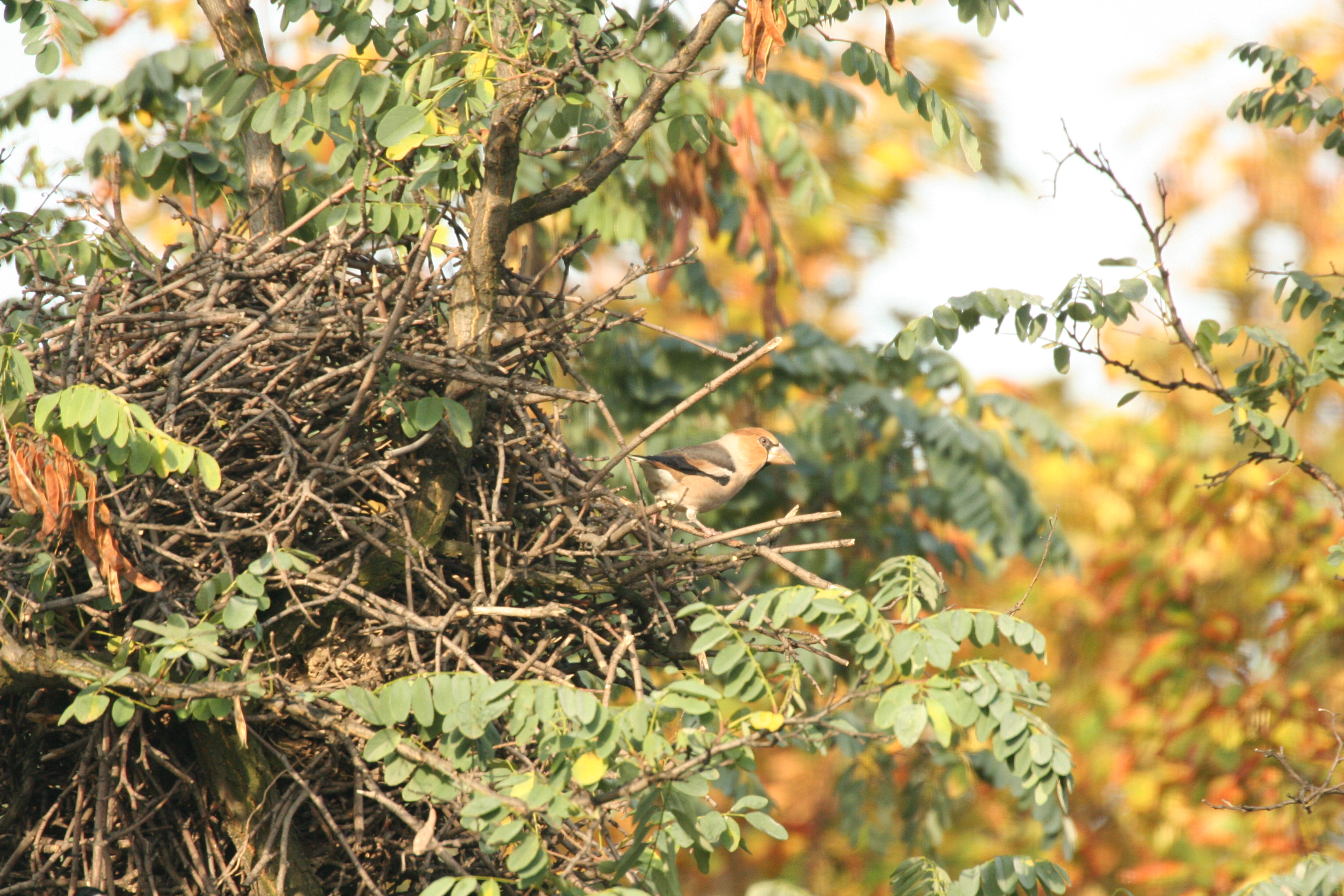 Hawfinch